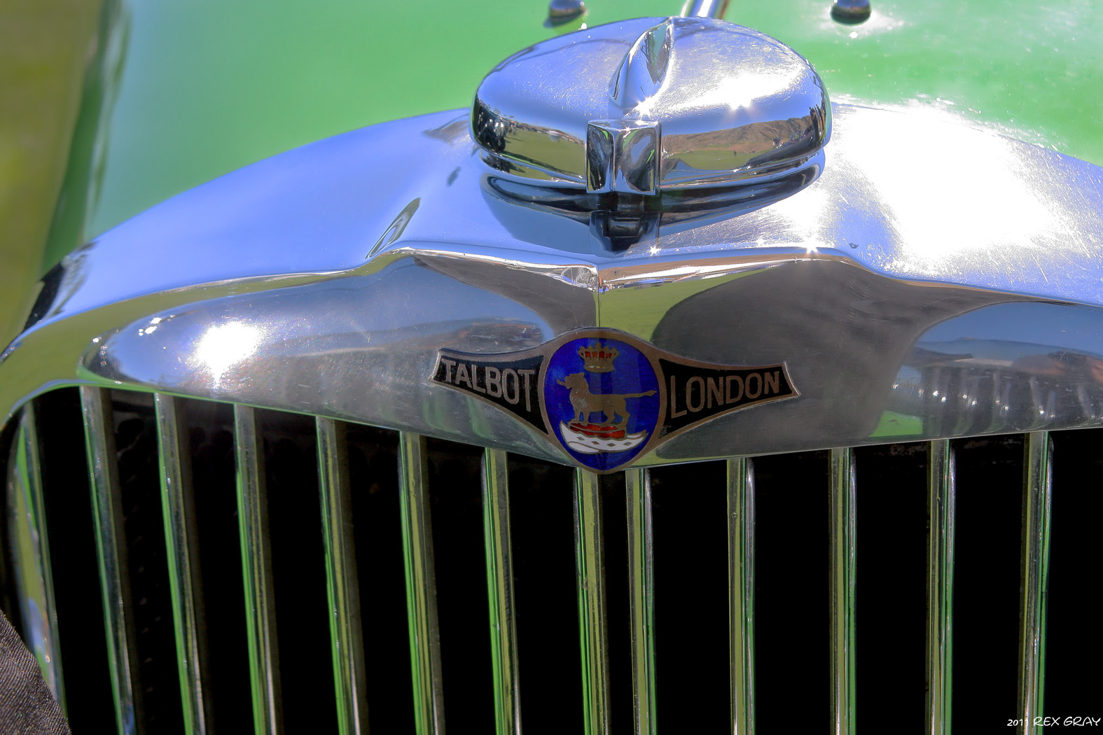 1932 Talbot London 105 4-Seater Sports 2011 Desert Classic, La Quinta, CA